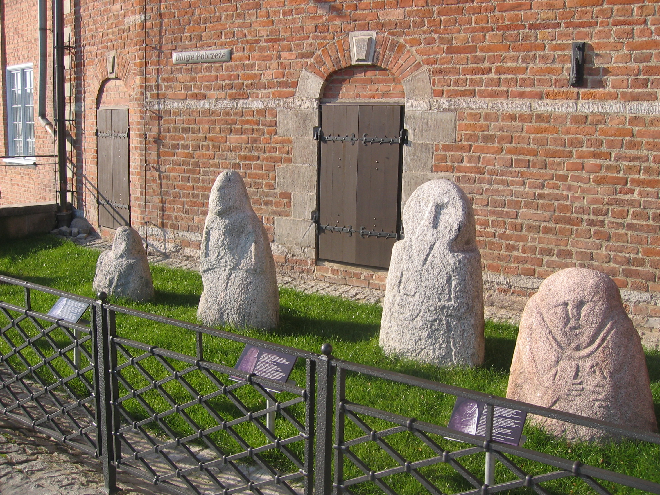 Gdansk, Poland - Stone babas from Old Prussia in Gdańsk Archaeological Museum